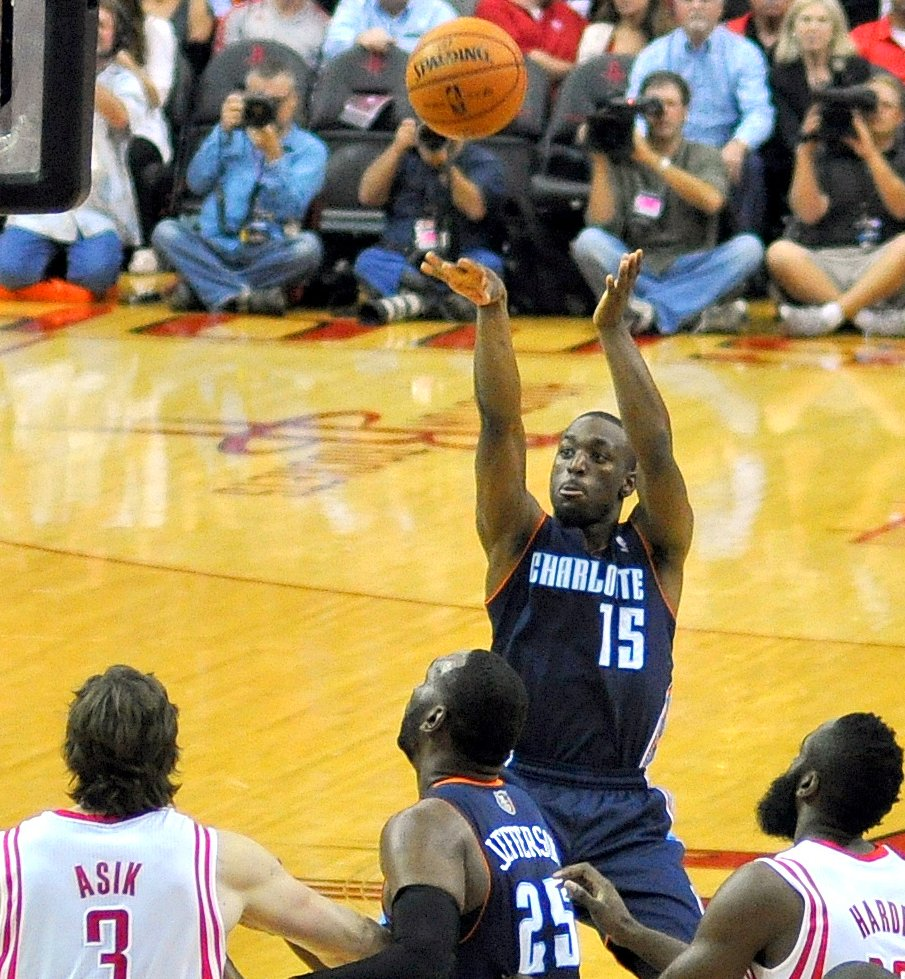 Kemba Walker of the Charlotte Bobcats takes a jump shot during an NBA basketball game against the Houston Rockets, October 30, 2013, at the Toyota Center in Houston, Texas.